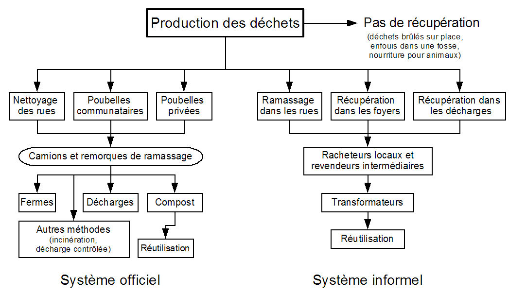 The waste management system in a developing country, including the informal sector.